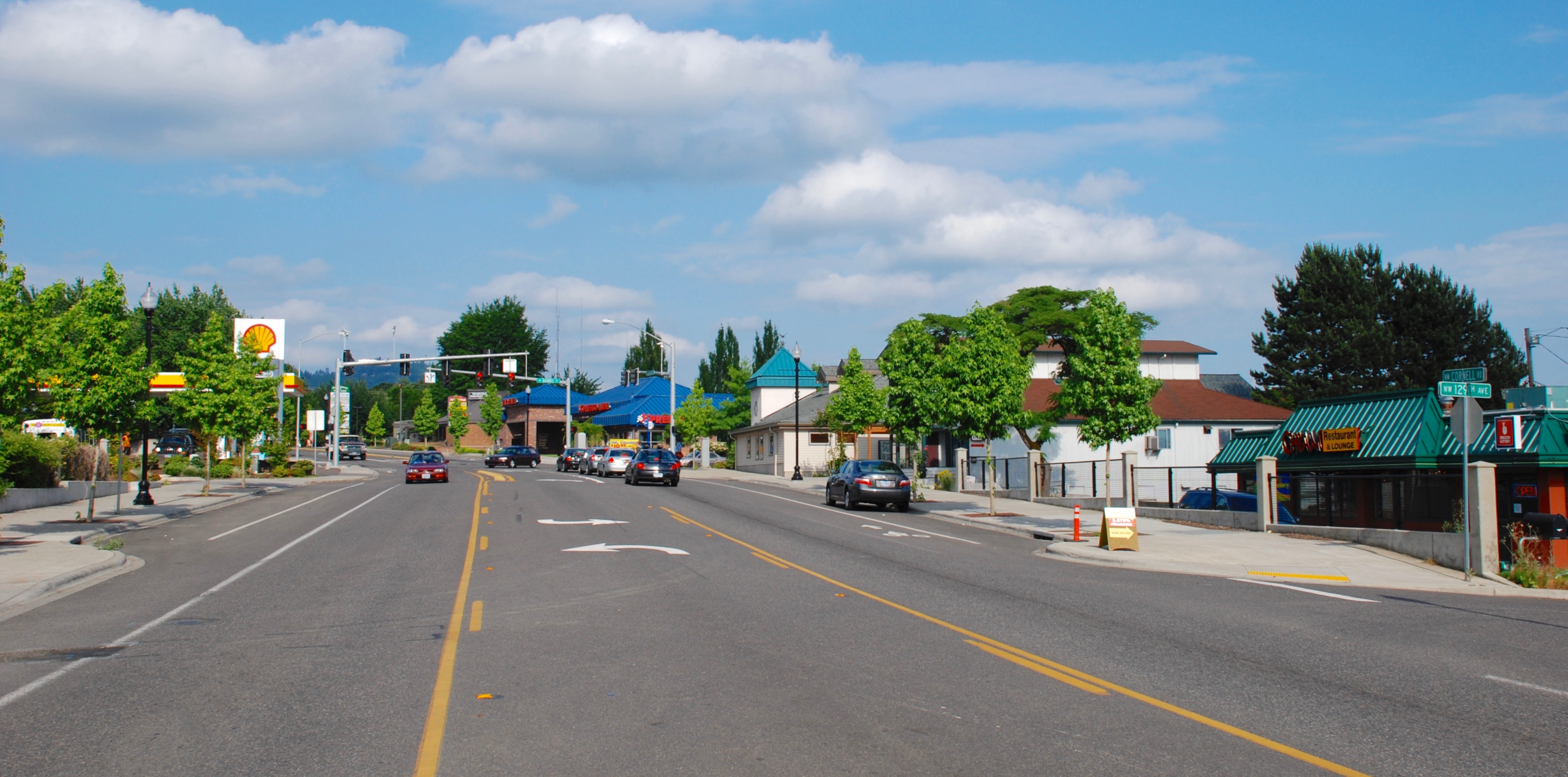 Looking east on Cornell Road at N.W. 129th Avenue in Cedar Mill, Oregon, in 2009. This is in the main commercial part of Cedar Mill. The intersection in the distance is Barnes Road.